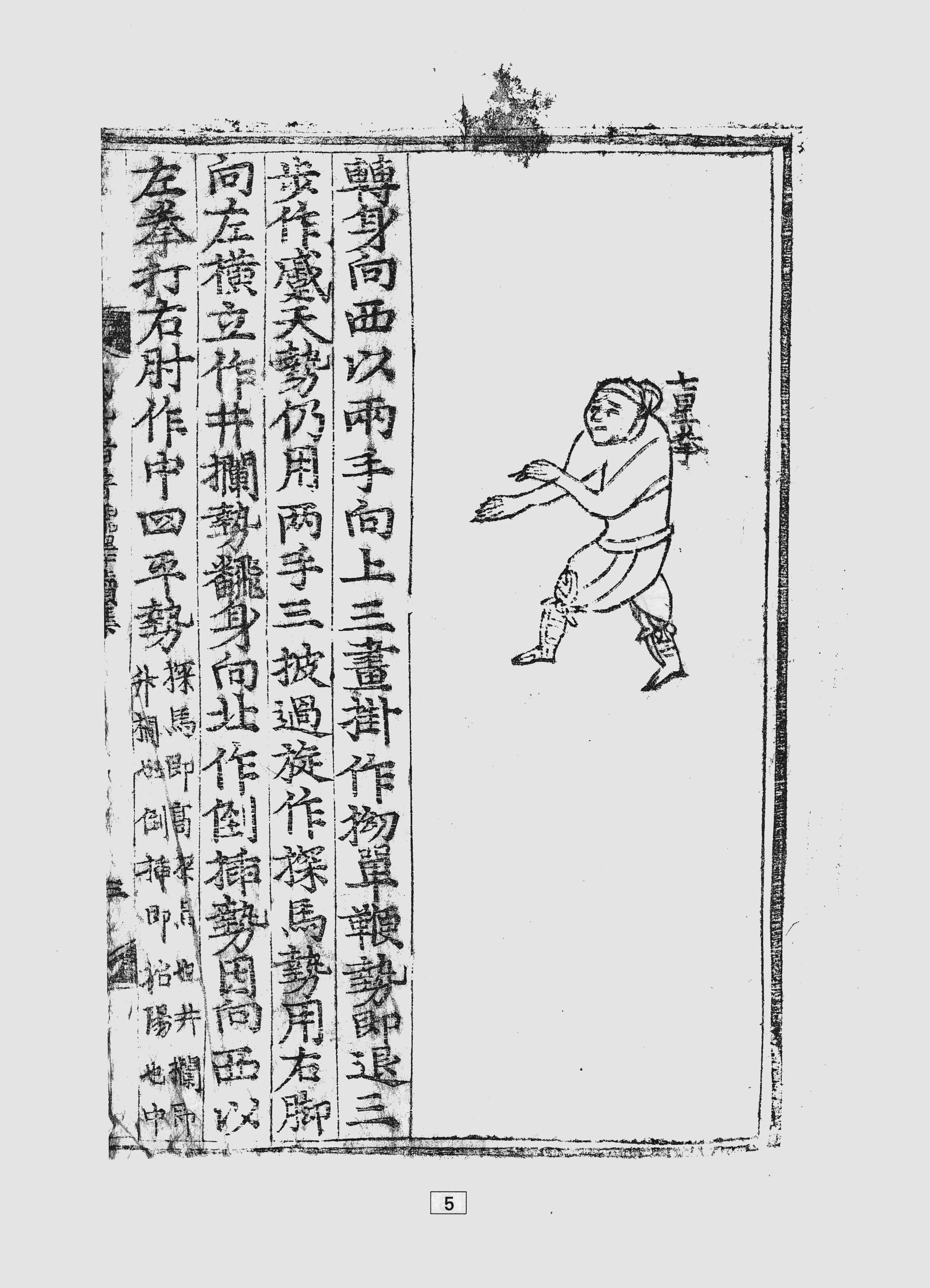 Muye Jebo - 5th page of commentary and illustrations